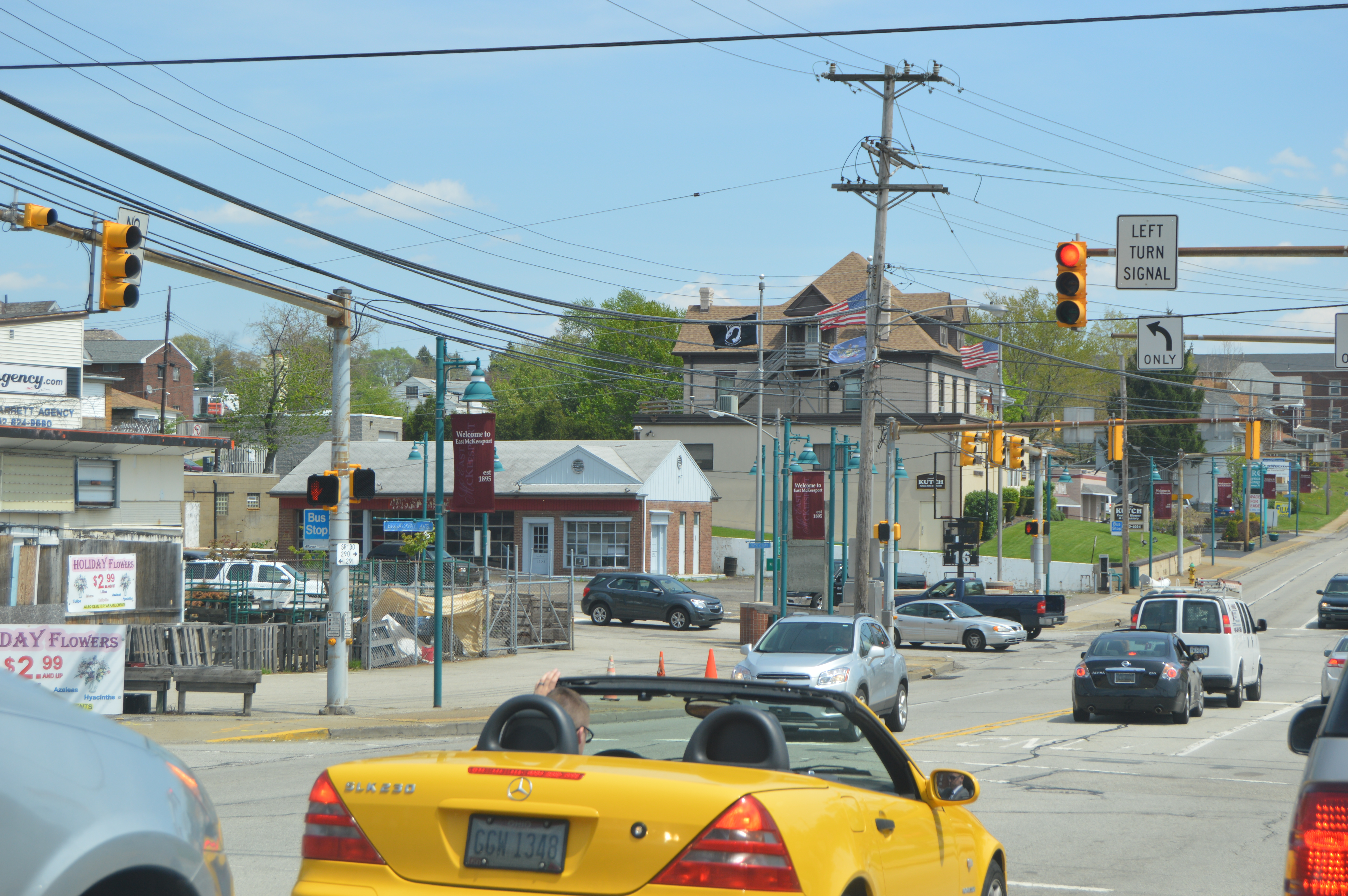 Buildings on the northern side of U.S. Route 30, the Lincoln Highway, between the Broadway and Fifth Avenue intersections in East McKeesport, Pennsylvania, United States.